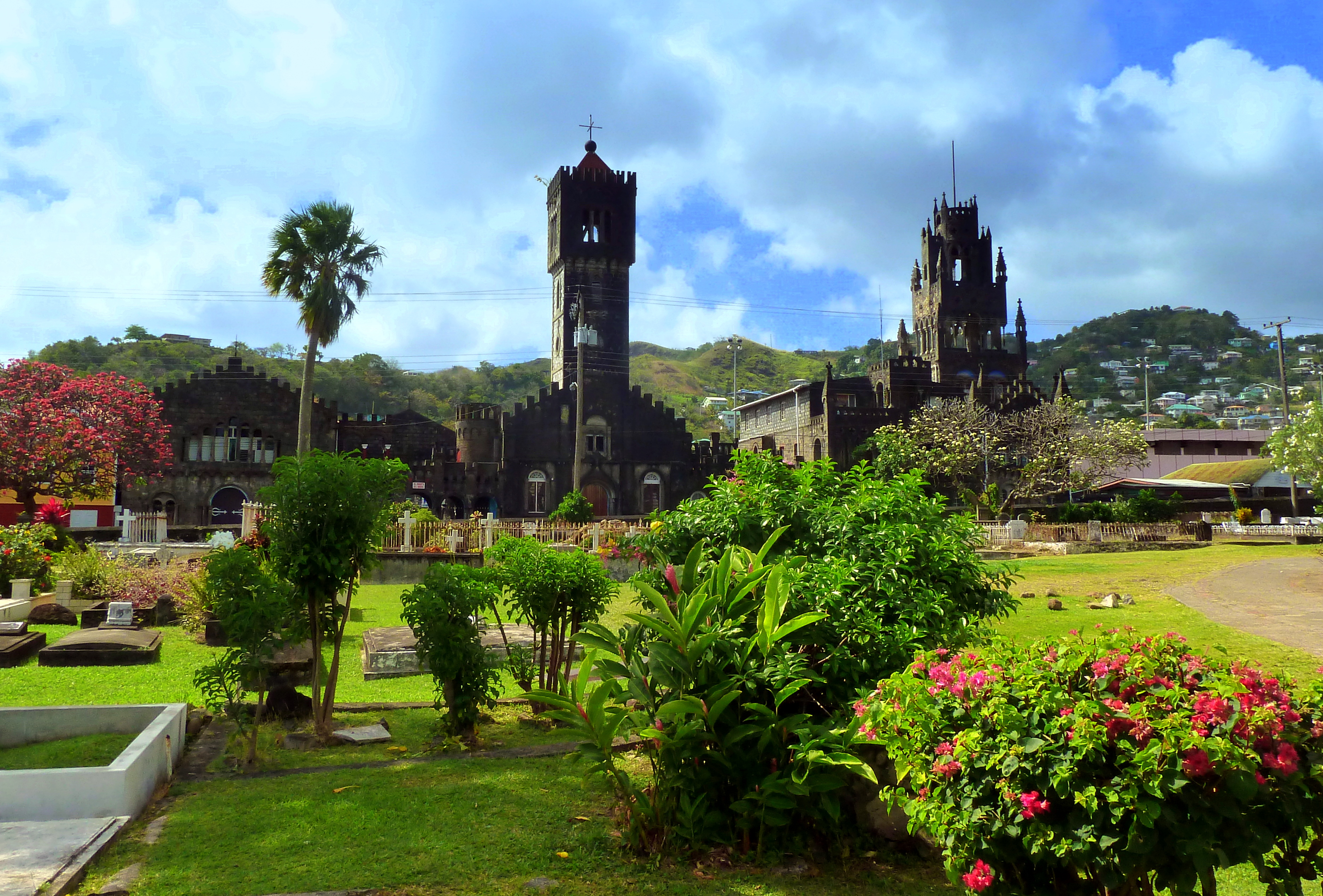 St. Vincent, Karibik - St. Mary's R.C. School & St. Mary's R.C. Cathedral